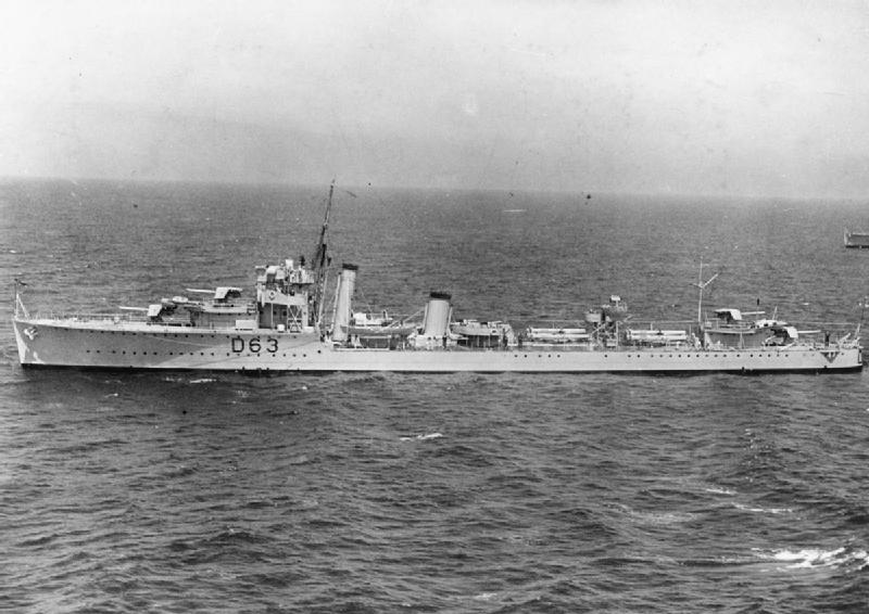 Photograph of British Admiralty Modified W class destroyer HMS Verity in the Mediterranean.